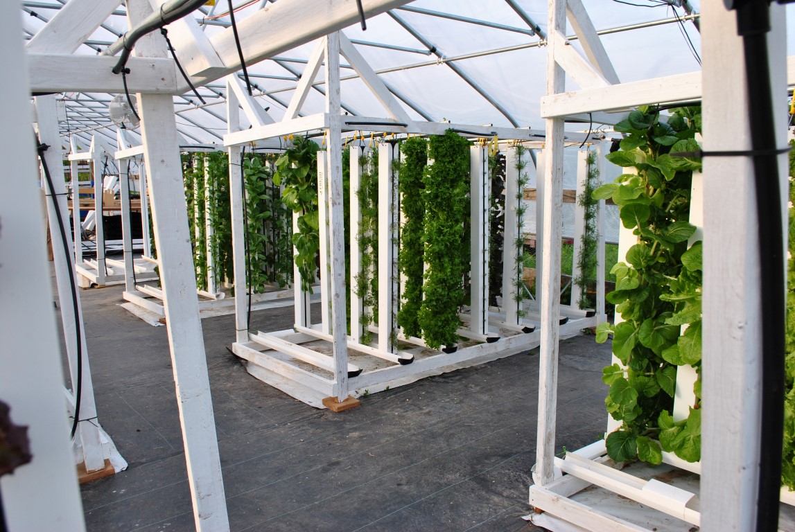 A hydroponic (aquaponic) vertical farm houses hundreds of ZipGrow Towers to grow crops for a Minnesota community.